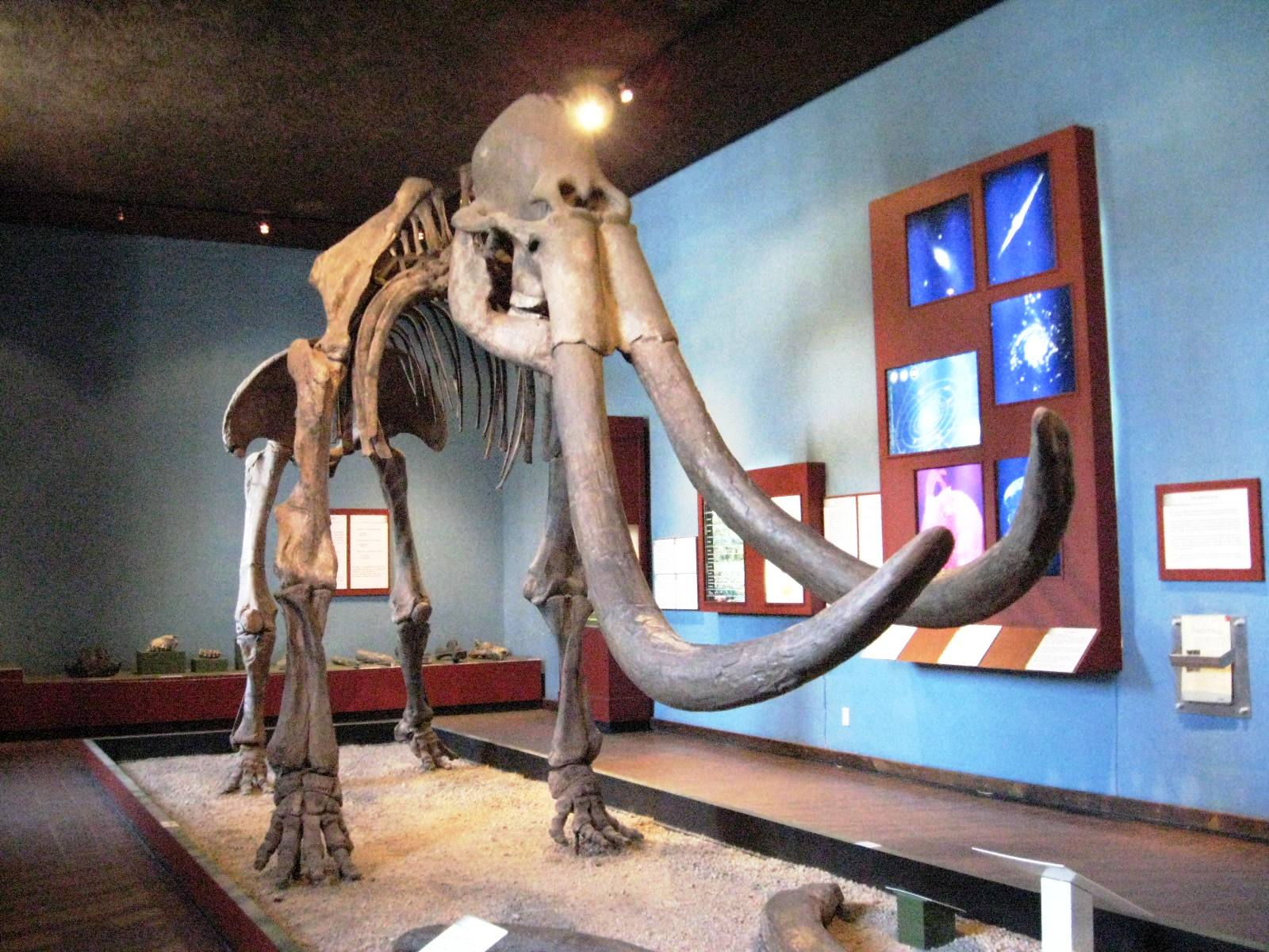 nearly complete Columbian mammoth skeleton on display at the Regional Museum of Guadalajara in Guadalajara Mexico.